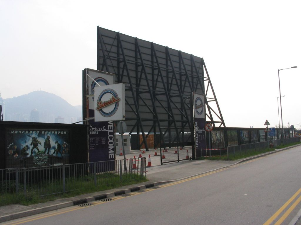 西九龍文娛藝術區-維港巨幕 The Drive-in (已拆卸), West Kowloon Cultural District